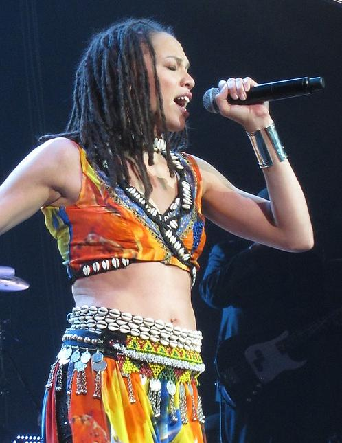 Naima Adedapo performing in Season 10 American Idol tour